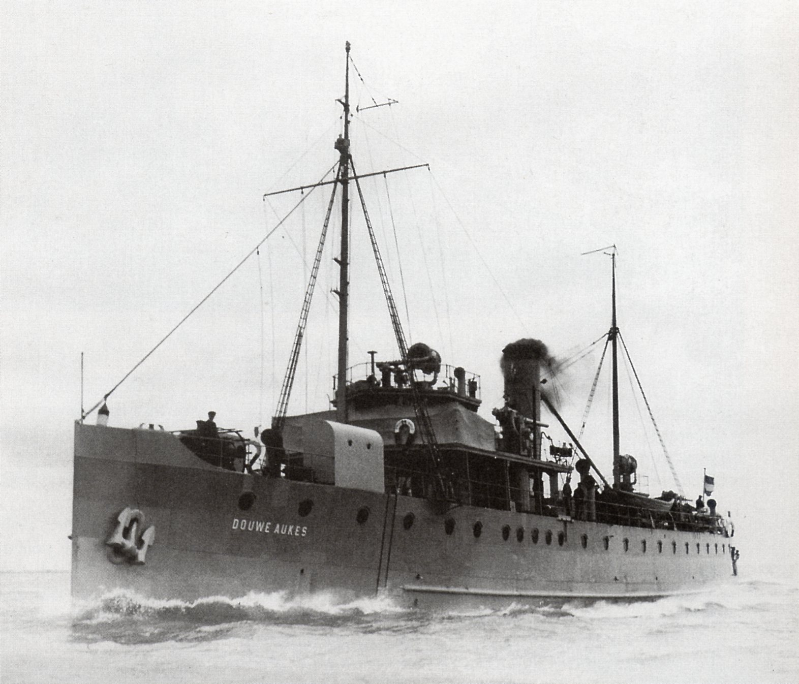 Dutch Douwe Aukes minelayer Douwe Aukes during the pre WO II mobilization